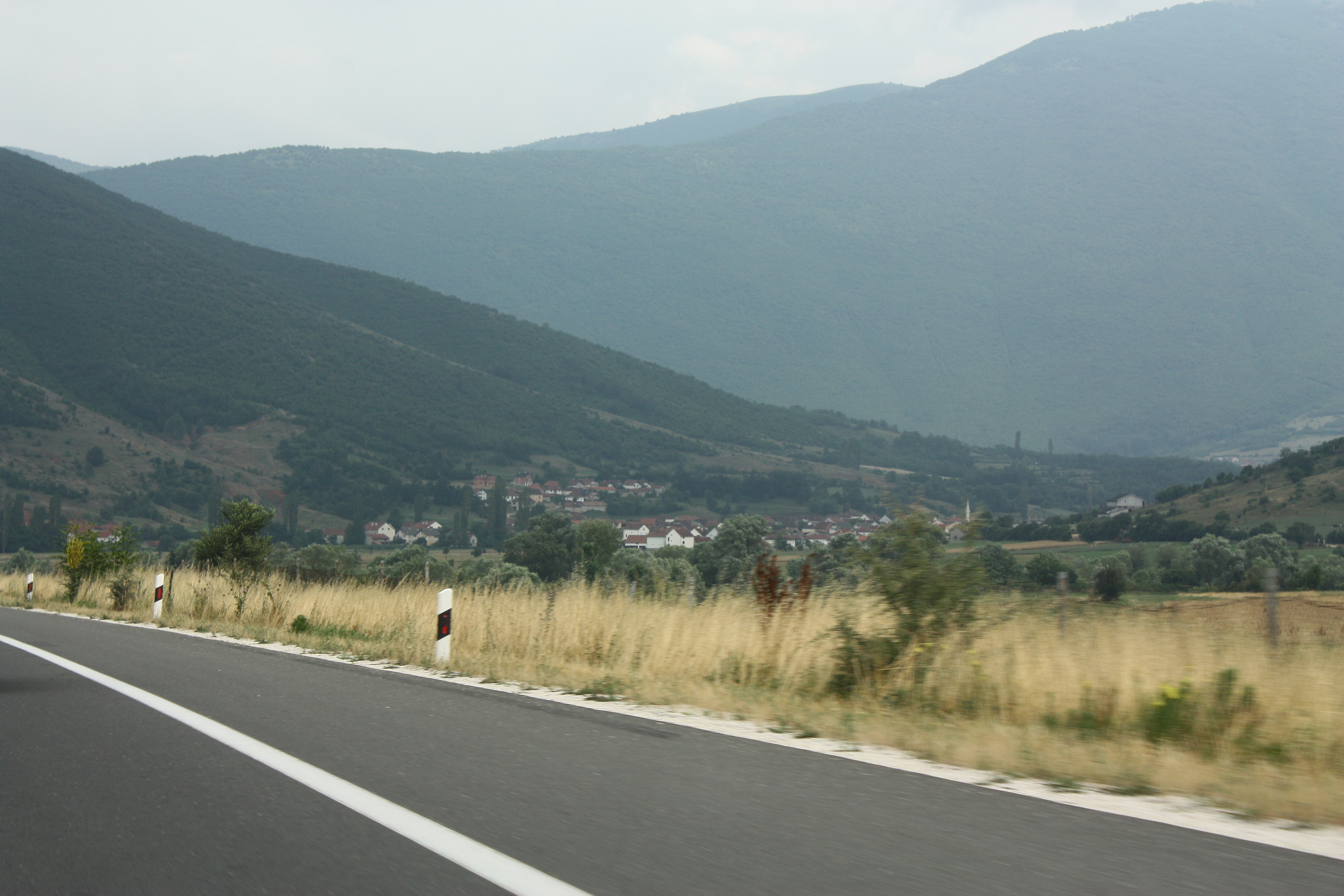 Čiflik, Tetovo, Macedonia